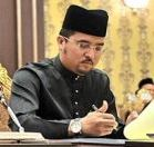 Official appointment: (From left) New deputy ministers Datuk Seri Reezal Merican Naina Merican (Foreign Affairs), Chong and Datuk Dr Asyraf Wajdi Dusuki (Prime Minister’s Department – religious affairs) signing the instrument of appointment after the swearing-in ceremony at Istana Negara.— Bernama